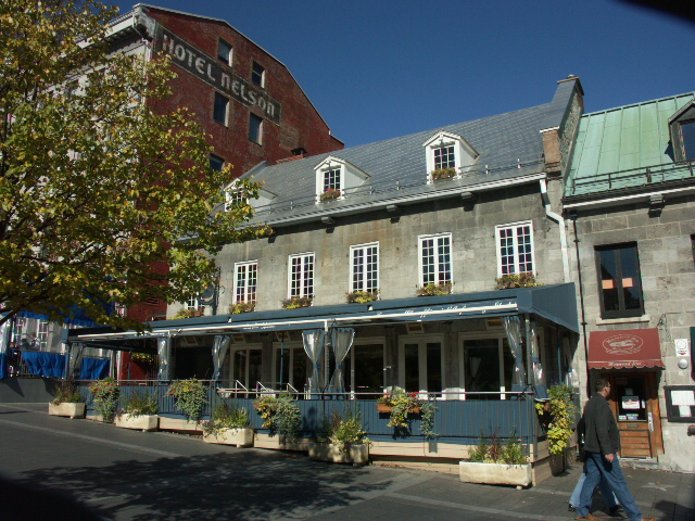 Maison Cartier on Place Jacques-Cartier in Old Montreal, Quebec, Canada. The Maison Cartier consists of two houses constructed in 1812-3, typical of the period. For years forming part of the "Hôtel Nelson" next door, the Maison Cartier is now occupied by The Jardin Nelson, one of the city's most renown restaurants.